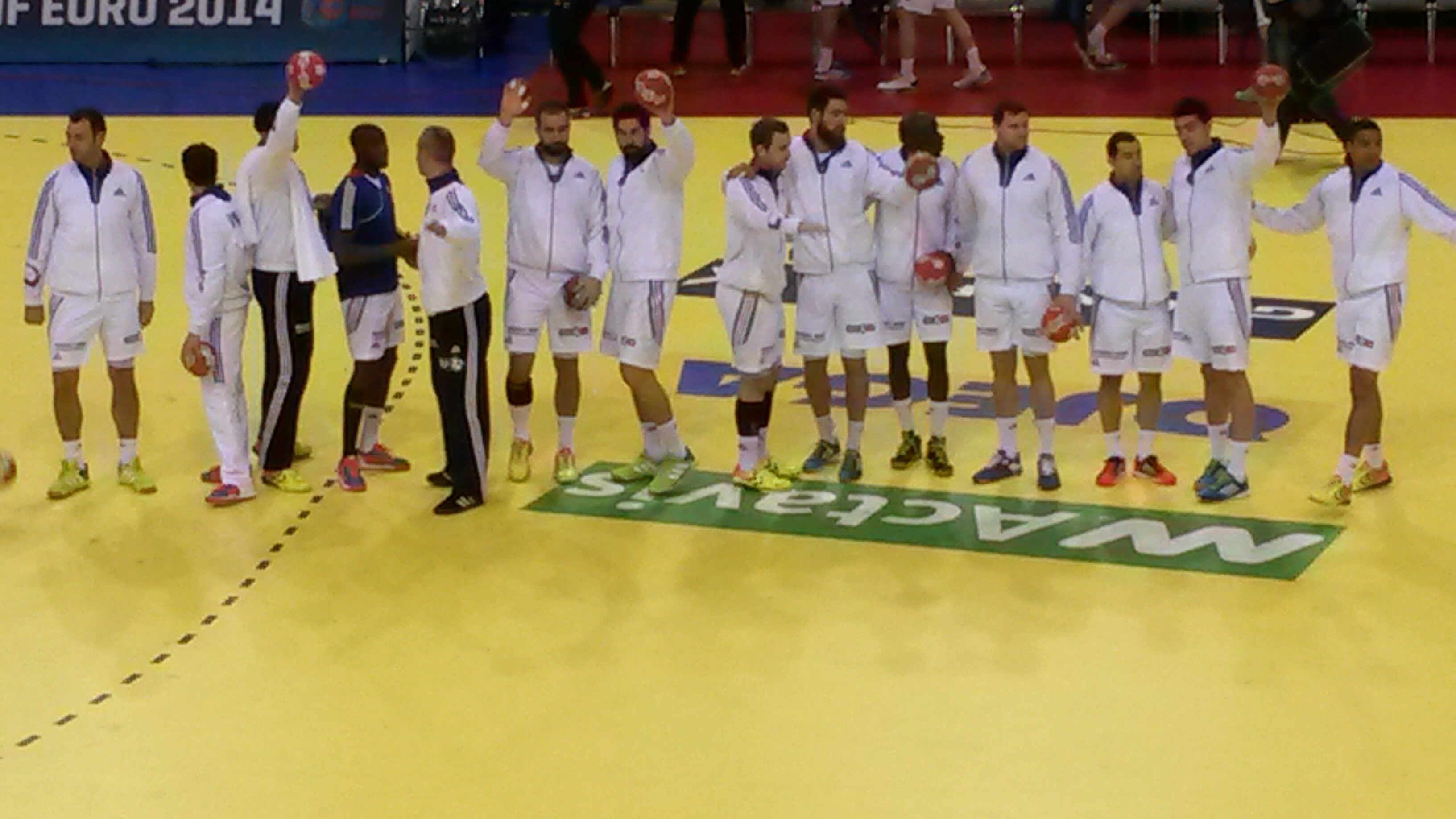 The French team greets the spectators before their match against Sweden